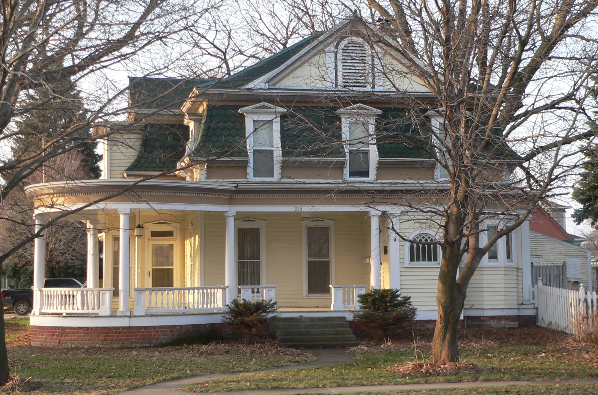 Abraham Castetter house, located at 1815 Grant Street in Blair, Nebraska; seen from the north, across Grant.